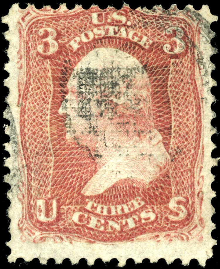 United States 3-cent postage stamp of 1867, with F grill